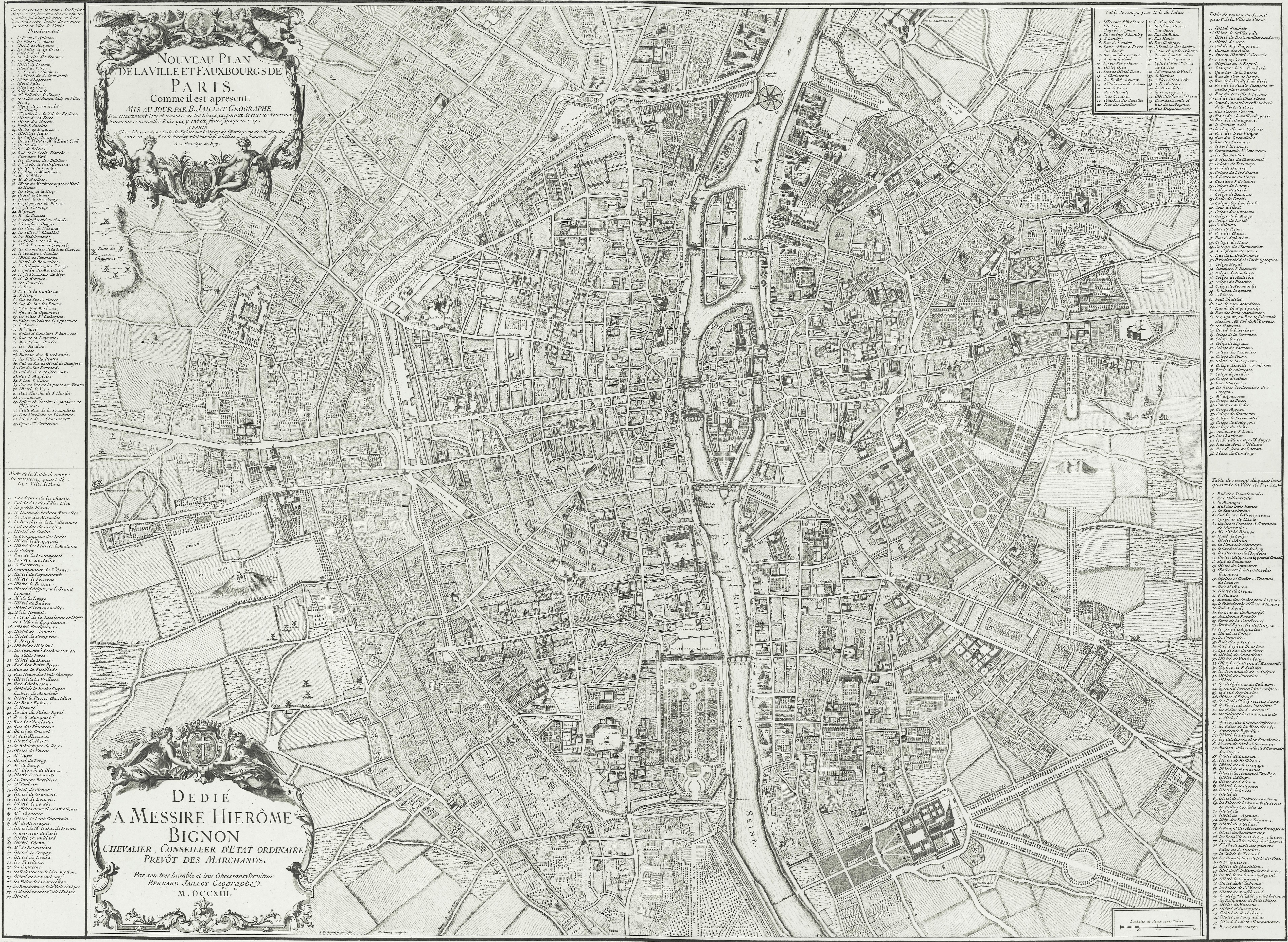 Map of Paris 1713 (Nouveau Plan de la ville et fauxbourgs de Paris)